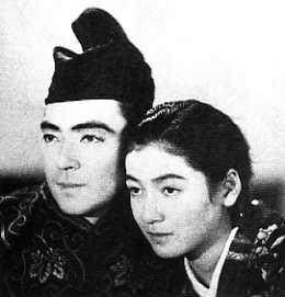 Setsuko Hara in 1937 Japanese movie kenji to sono Imouto(A Public Prosecutor and the Sister).